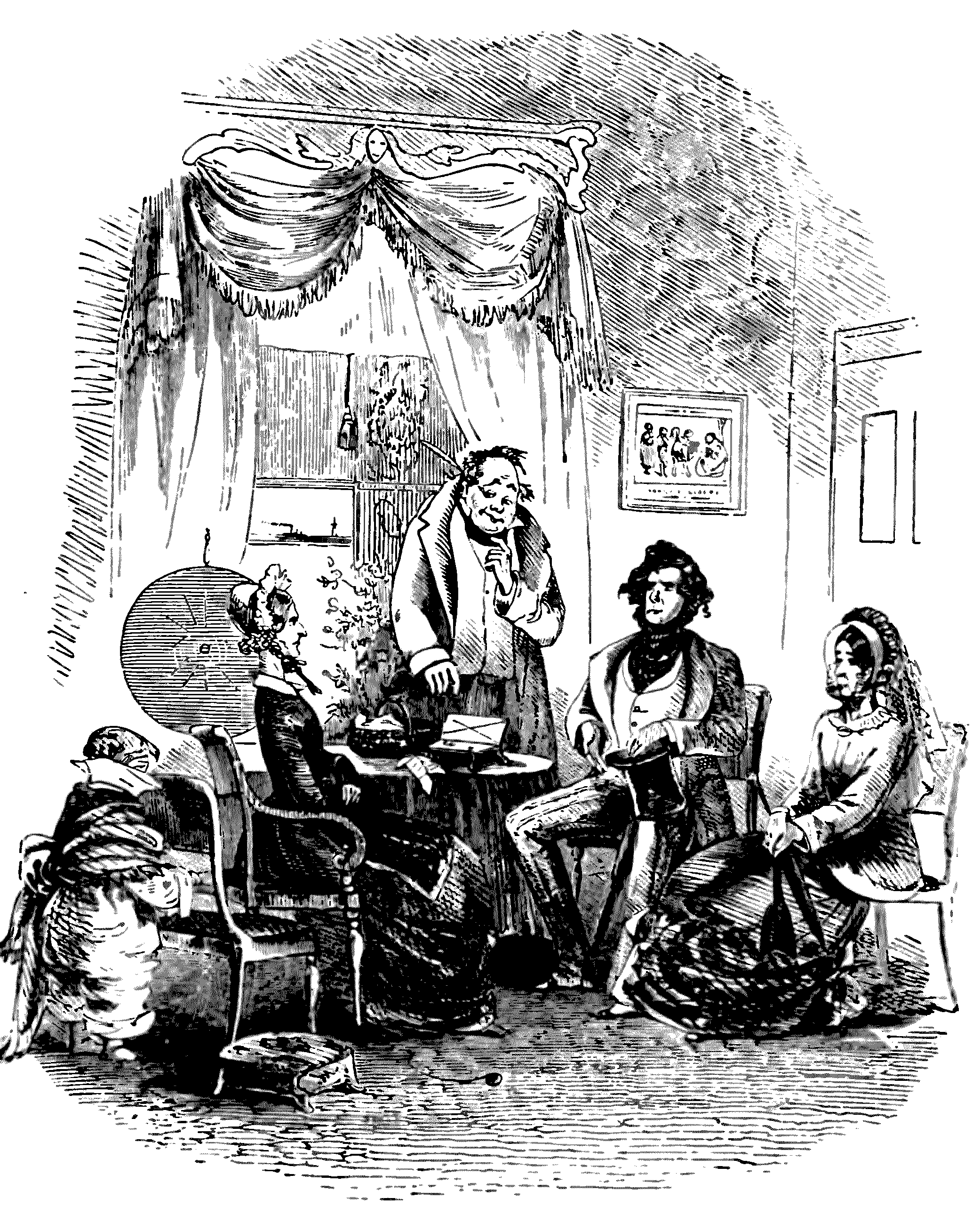 THE MOMENTOUS INTERVIEW